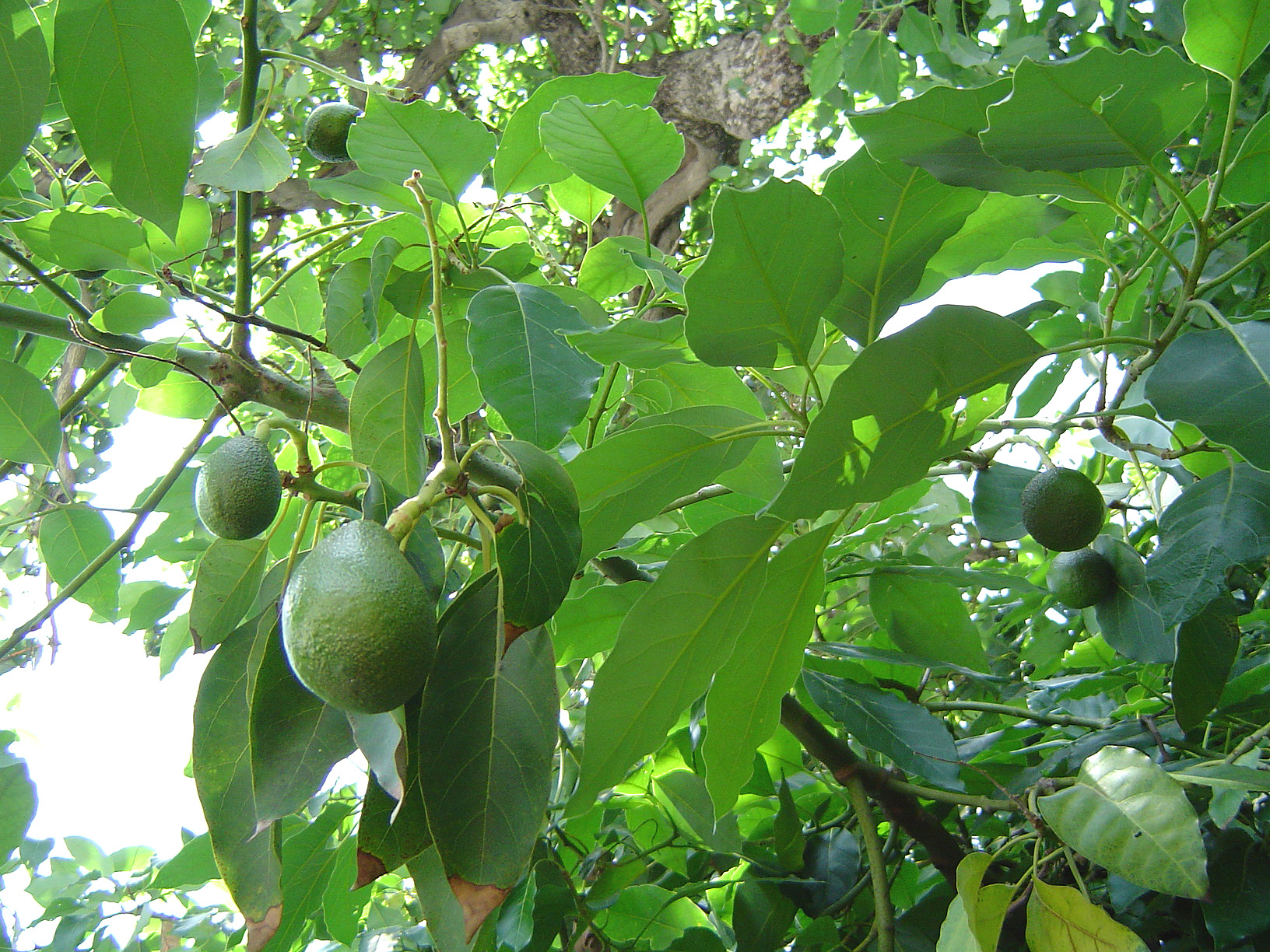 Avocado's fruits and foliages in Huntington Library's Bamboo III parking lot, on July 7, 2005.